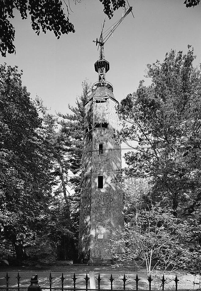 Frederic Bronson Windmill, 3015 Bronson Road, Fairfield (Fairfield County, Connecticut)